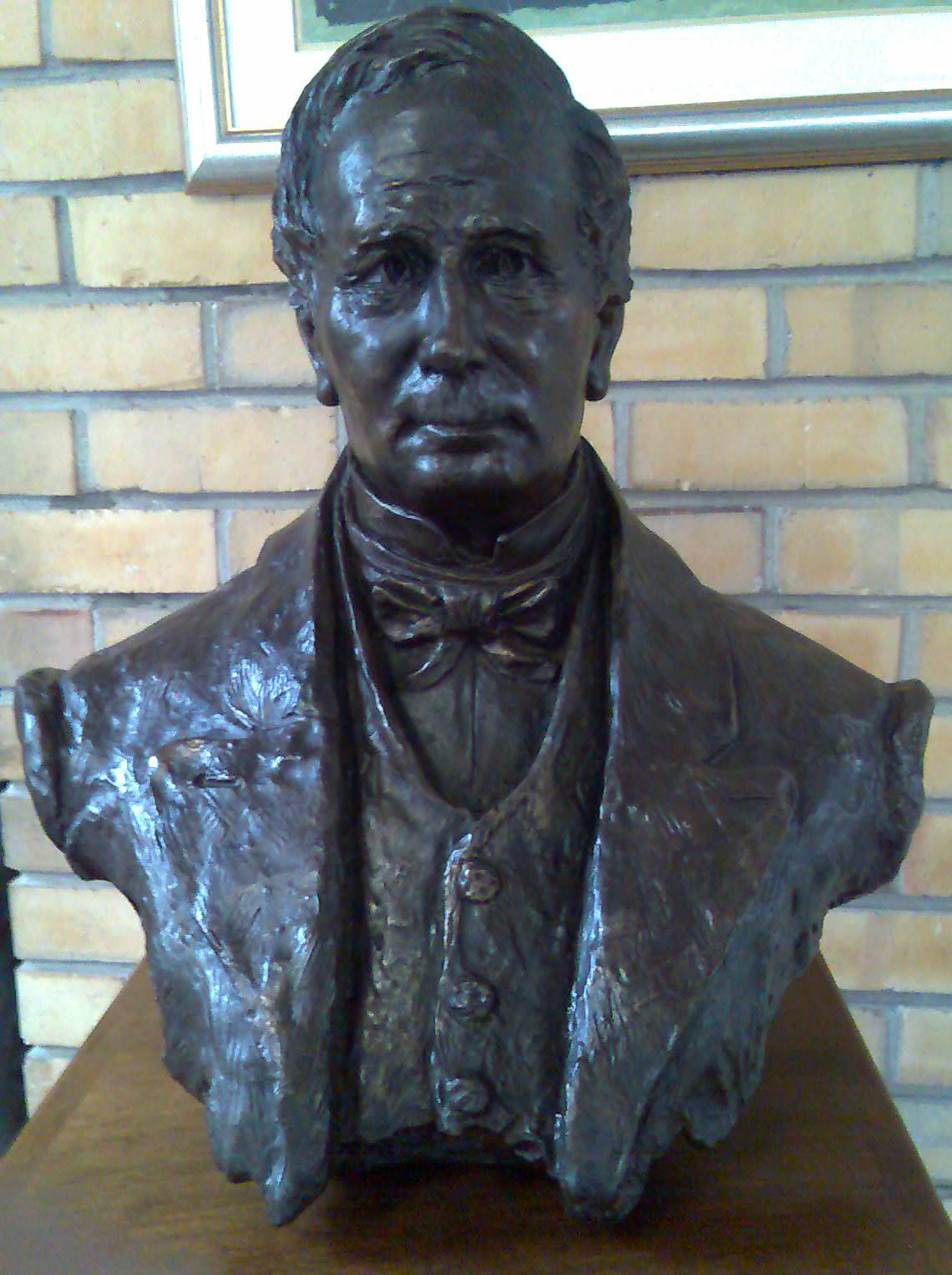 Bust of John Fairbain (educator)